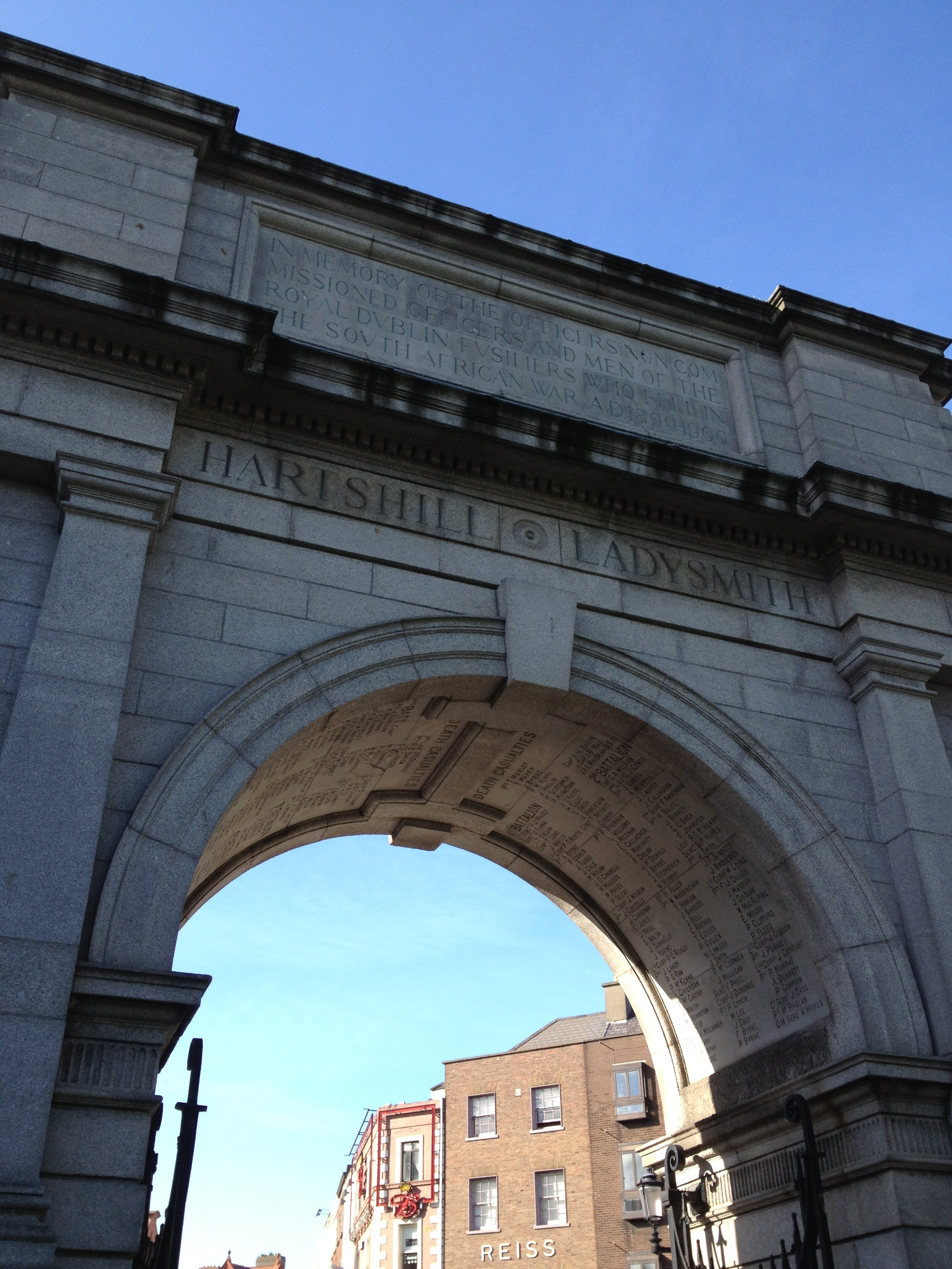 Fusiliers Arch looking out of St Stephens Green